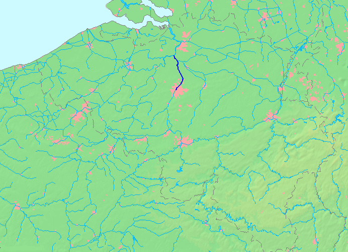 Location of a waterway (river/canal) in Belgium